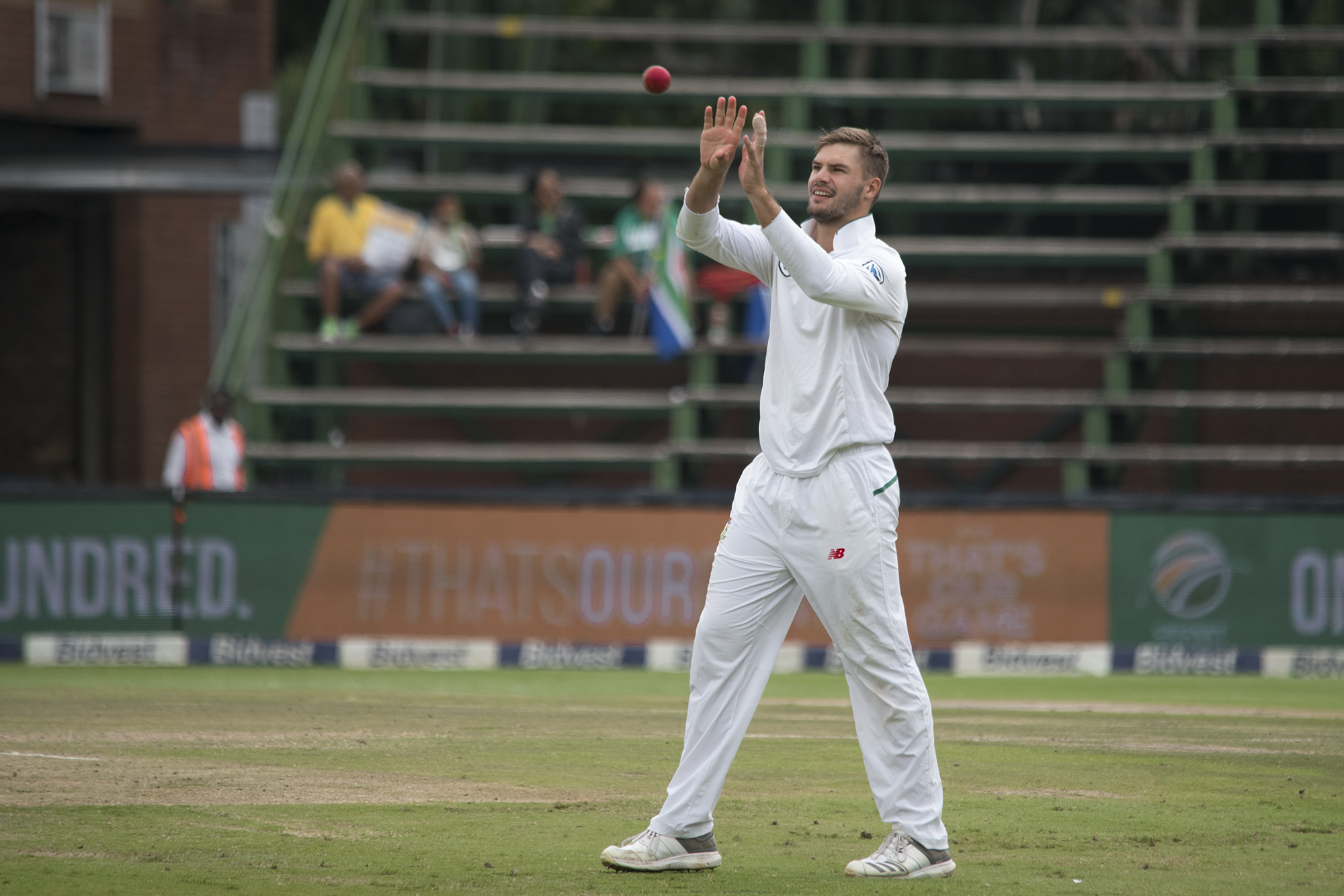 Aiden Markram playing for South Africa in a Test Match against Australia